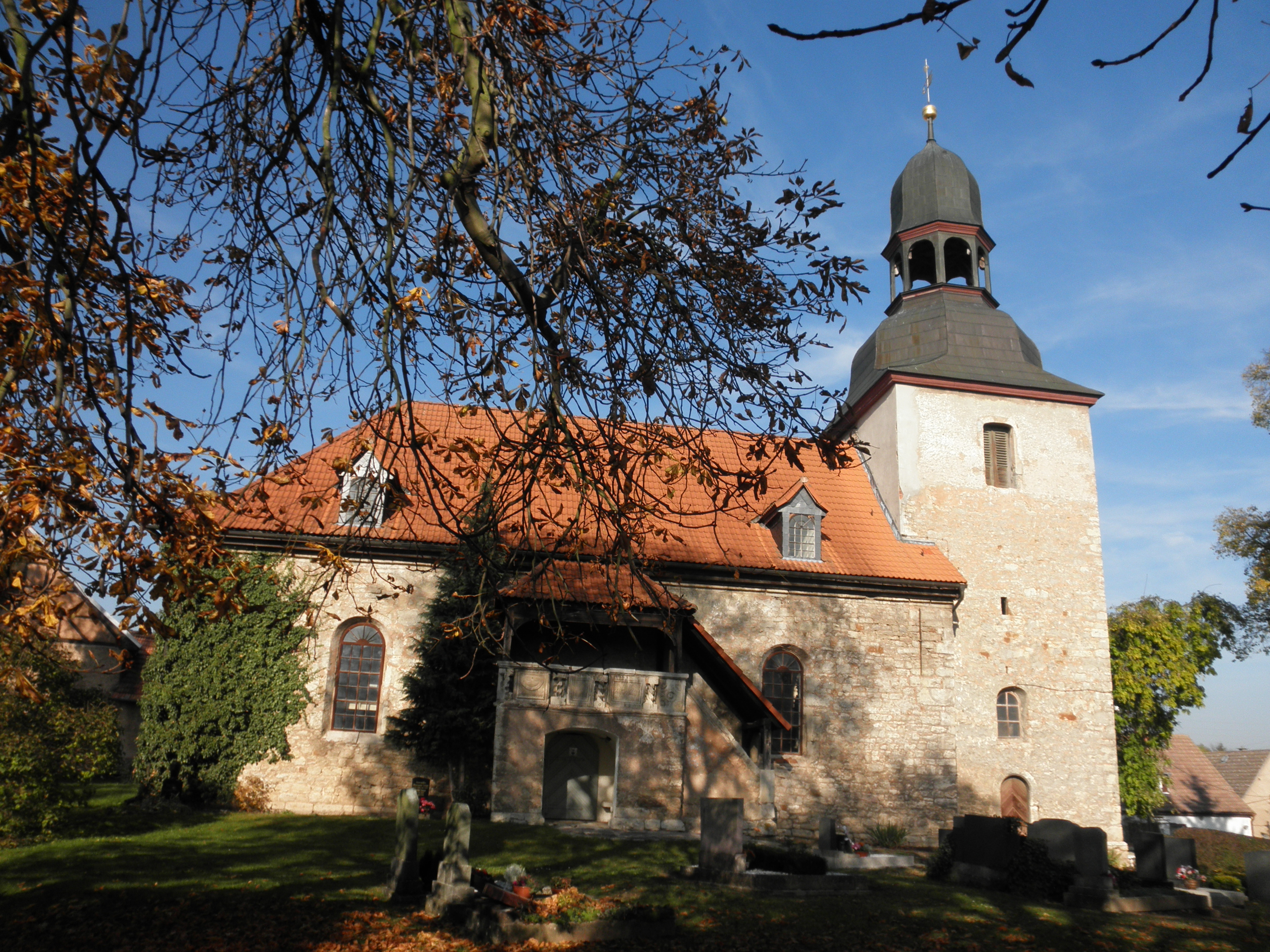 Church in Niederbösa in Thuringia